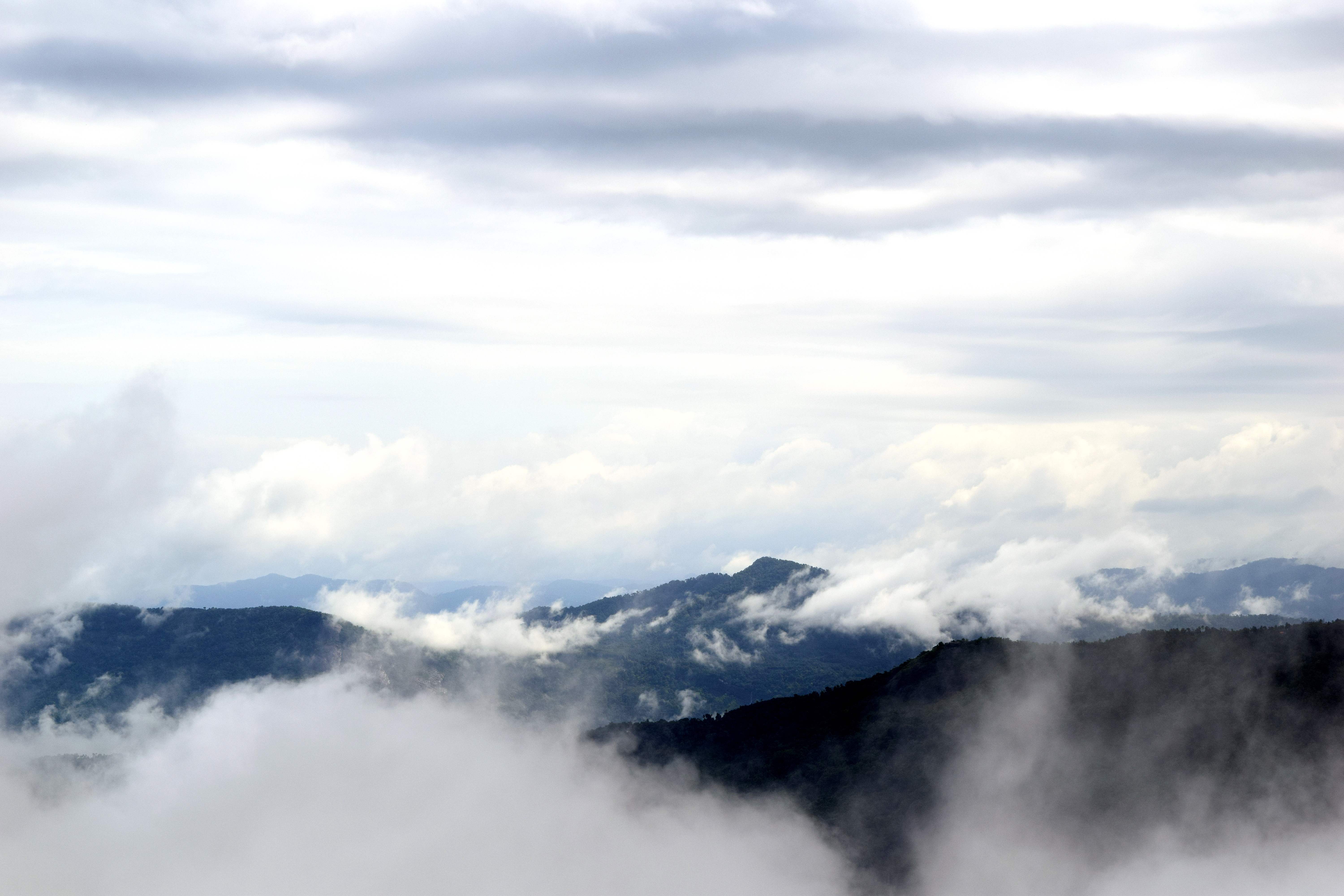 The beautiful Sahyadri near Vagamon, Kerala during a misty morning.